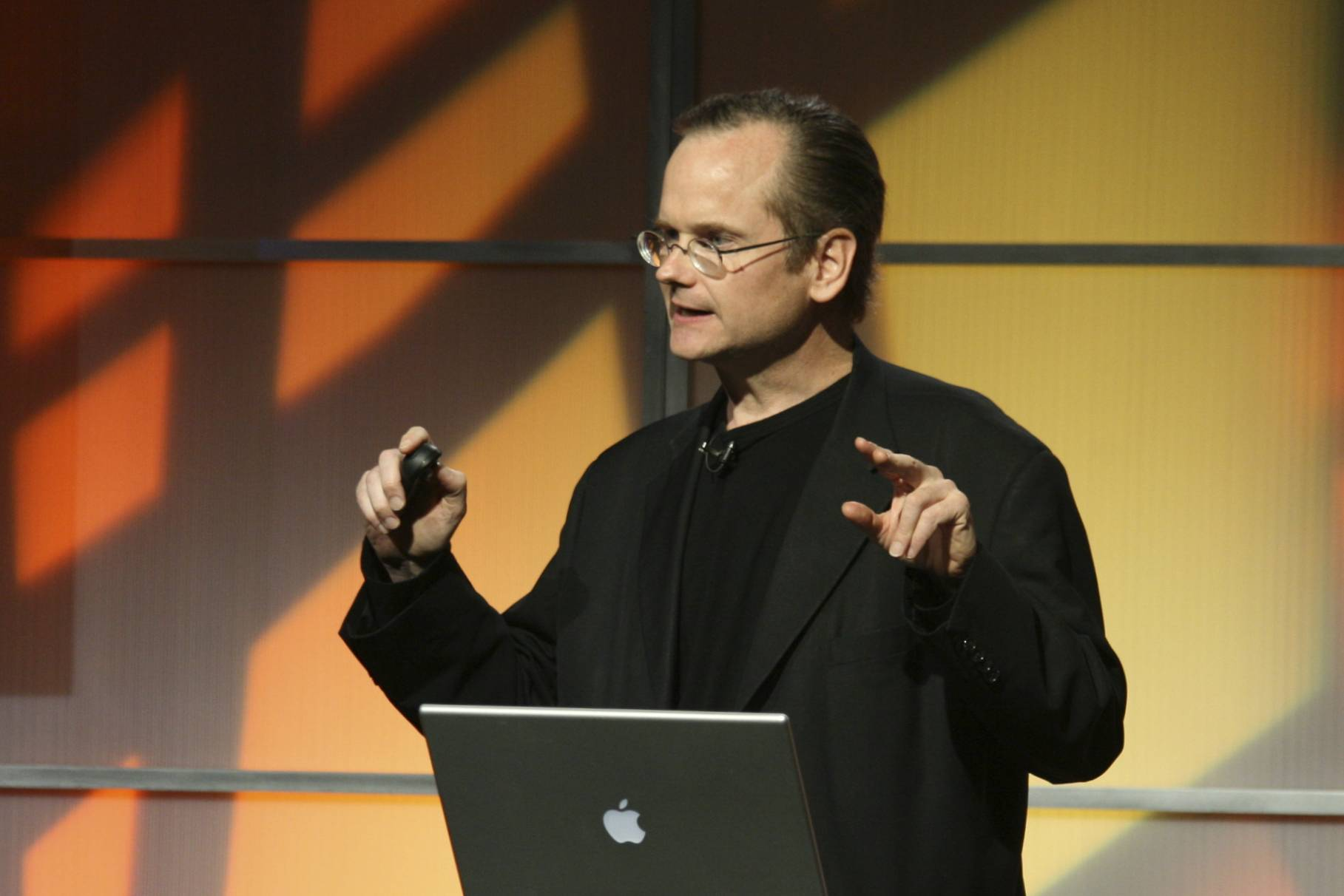 Lawrence Lessig at ETech 2008